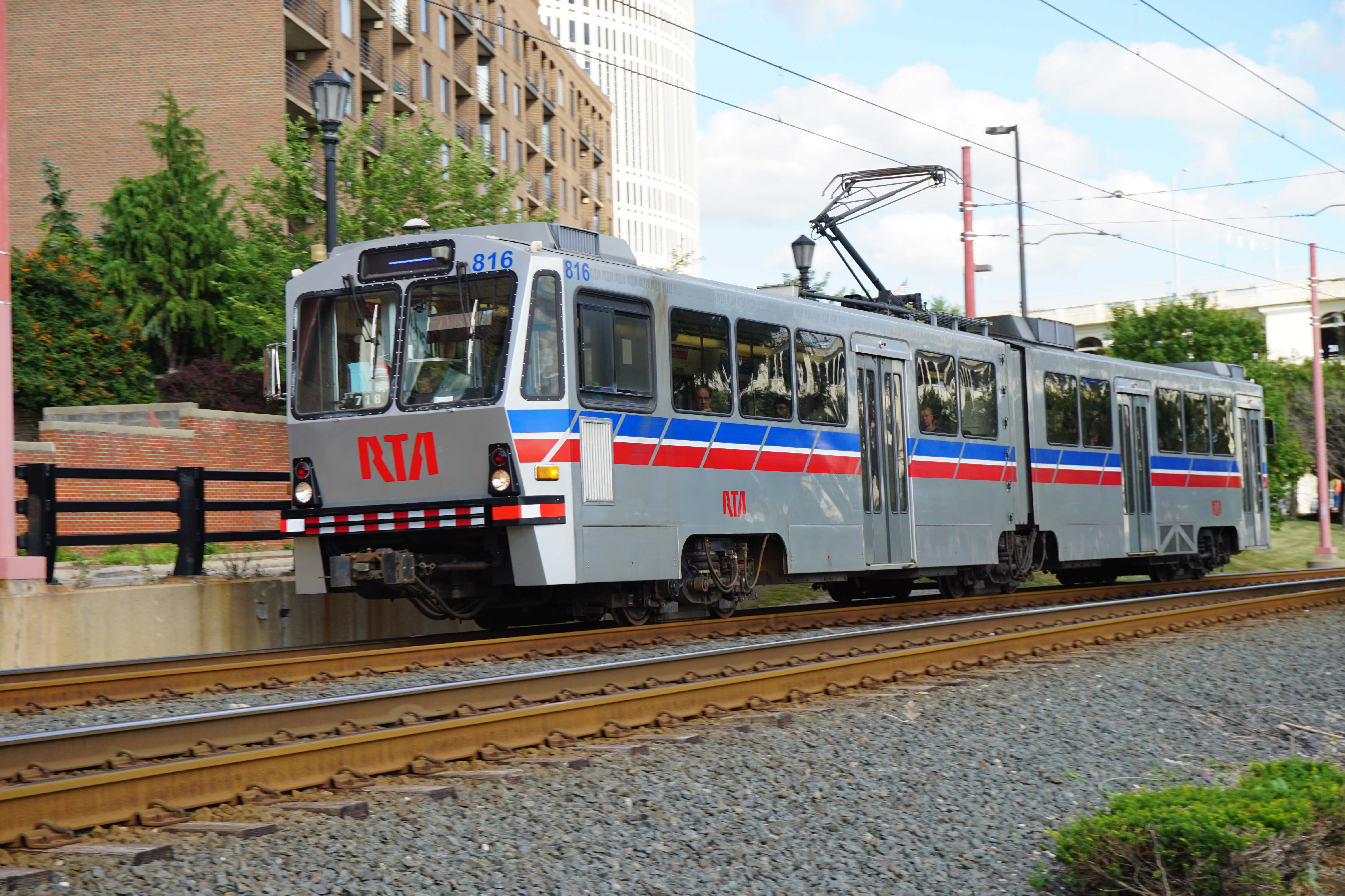 An RTA Blue Line train in Cleveland, Ohio (United States).